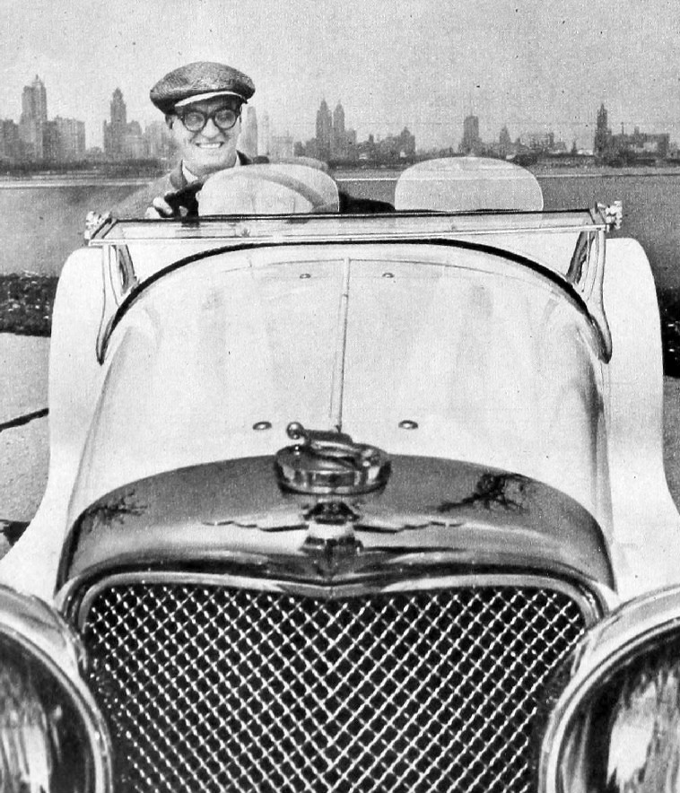 Photo of Dave Garroway with his 1938 Jaguar SS100. Garroway was both a collector and expert at restoring vintage autos. He restored this one himself and also raced the auto at one time.